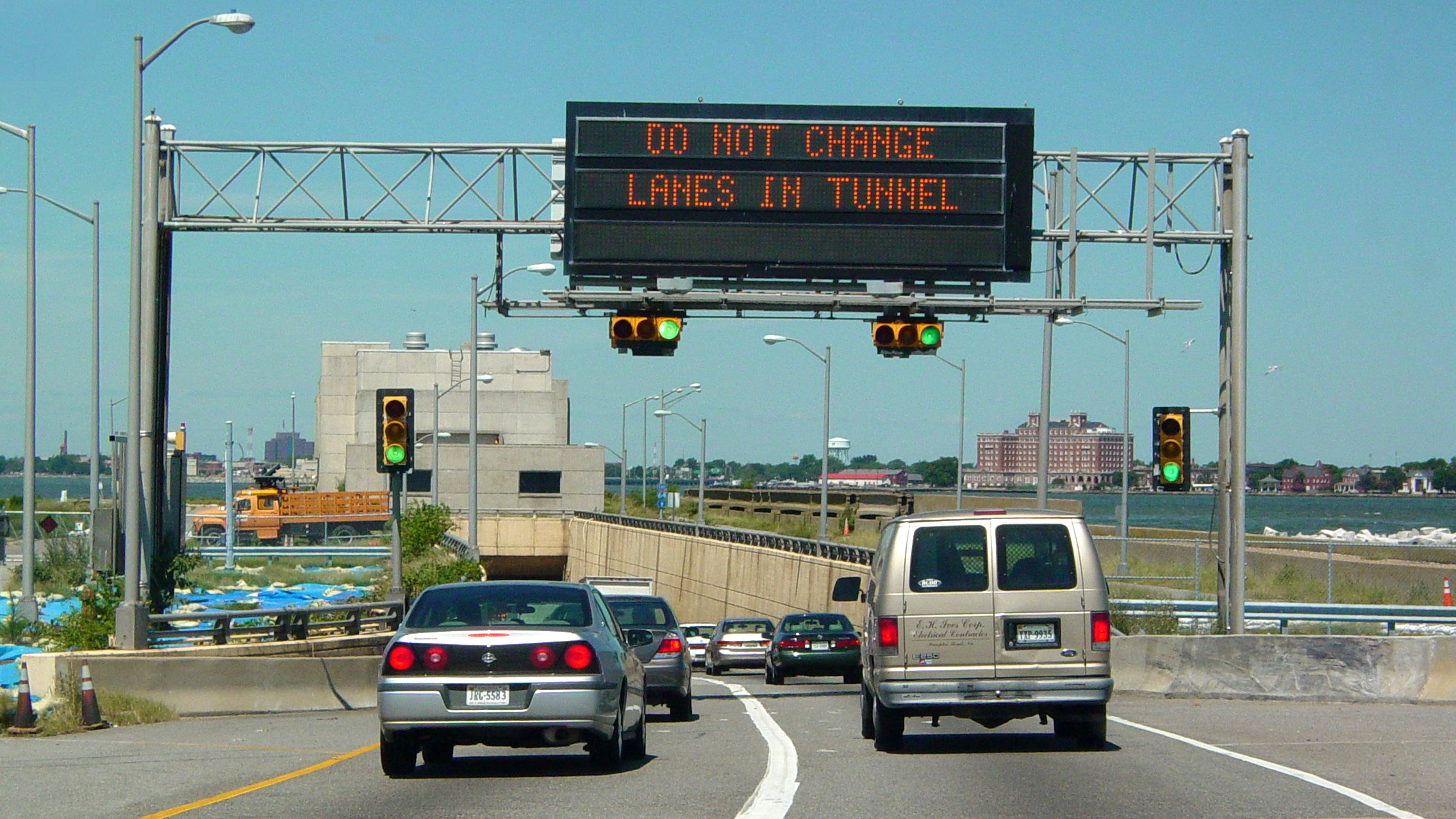 Entering the westbound tunnel on the Hampton Roads Bridge-Tunnel. The westbound tunnel is the original tunnel, first opened in 1957.